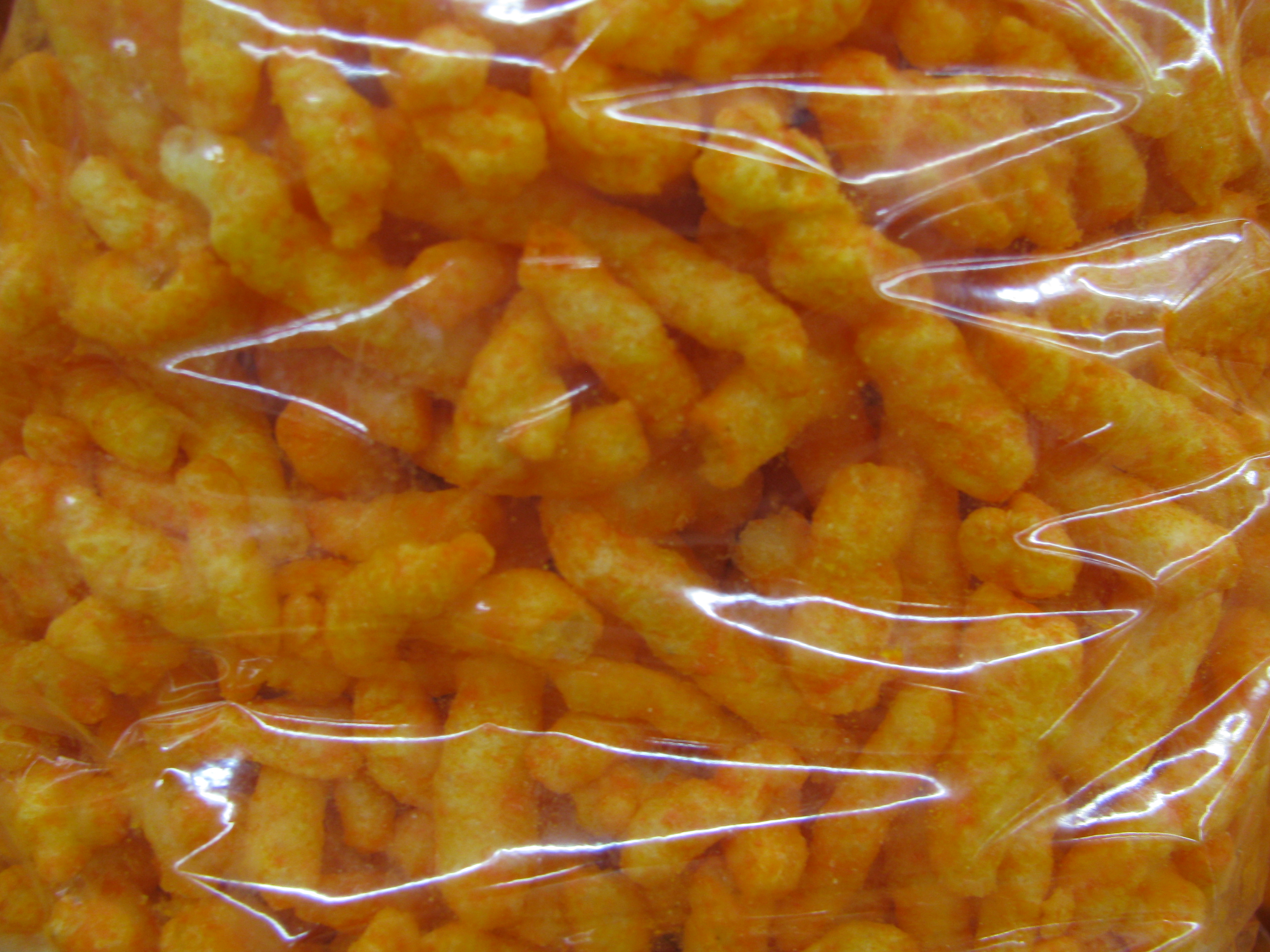 Cheese puffs